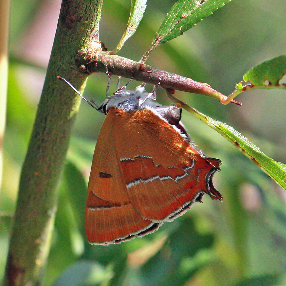 Brown hairstreak butterfly (Thecla betulae) female ready to lay egg, Otmoor, Oxfordshire